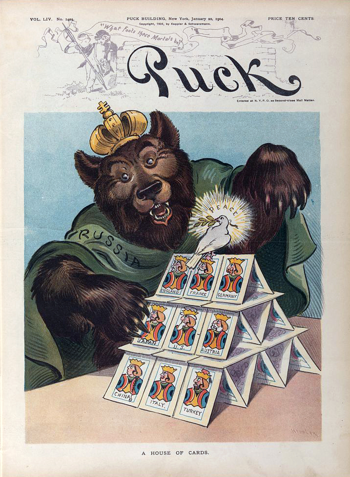 Cover of american humor magazine Puck at 20 January 1904